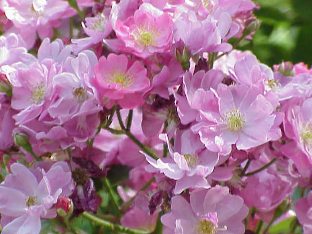 Species: Rosa sp. Family: Rosaceae Cultivar: Yesterday, Harkness 1974 Image No. 305